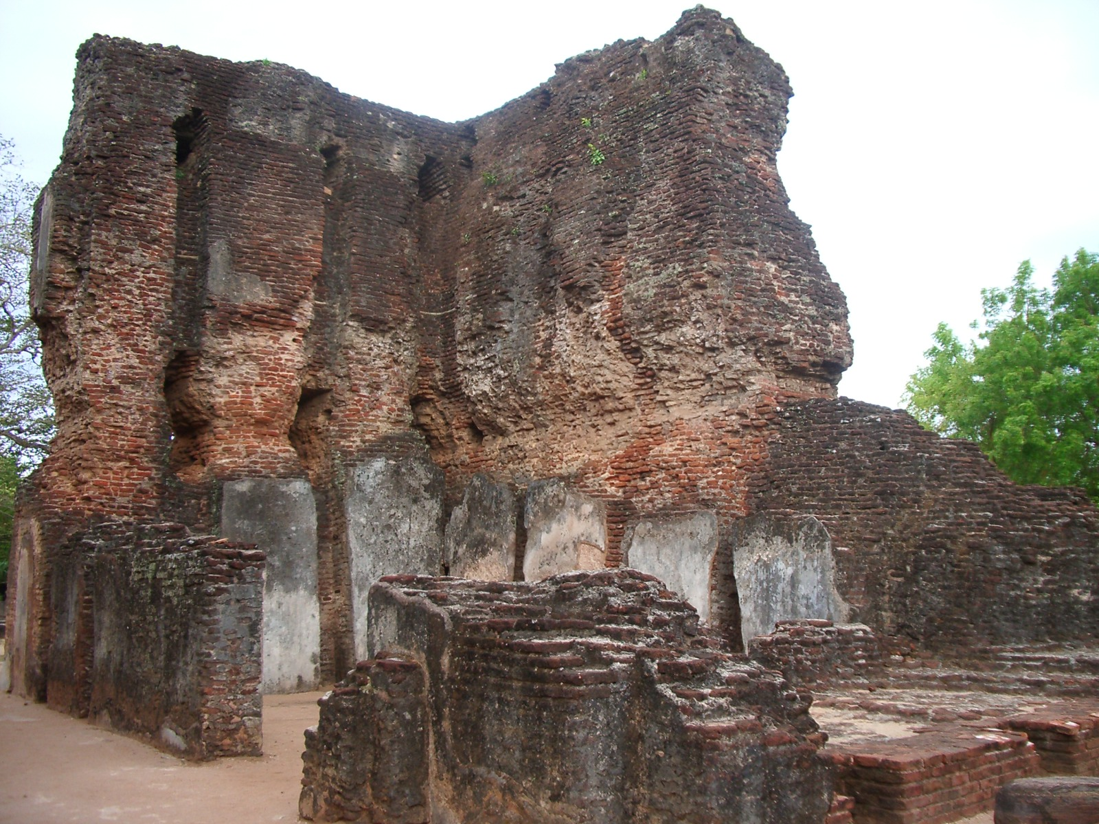 Palaces and temples burnt by portuguese soldiers